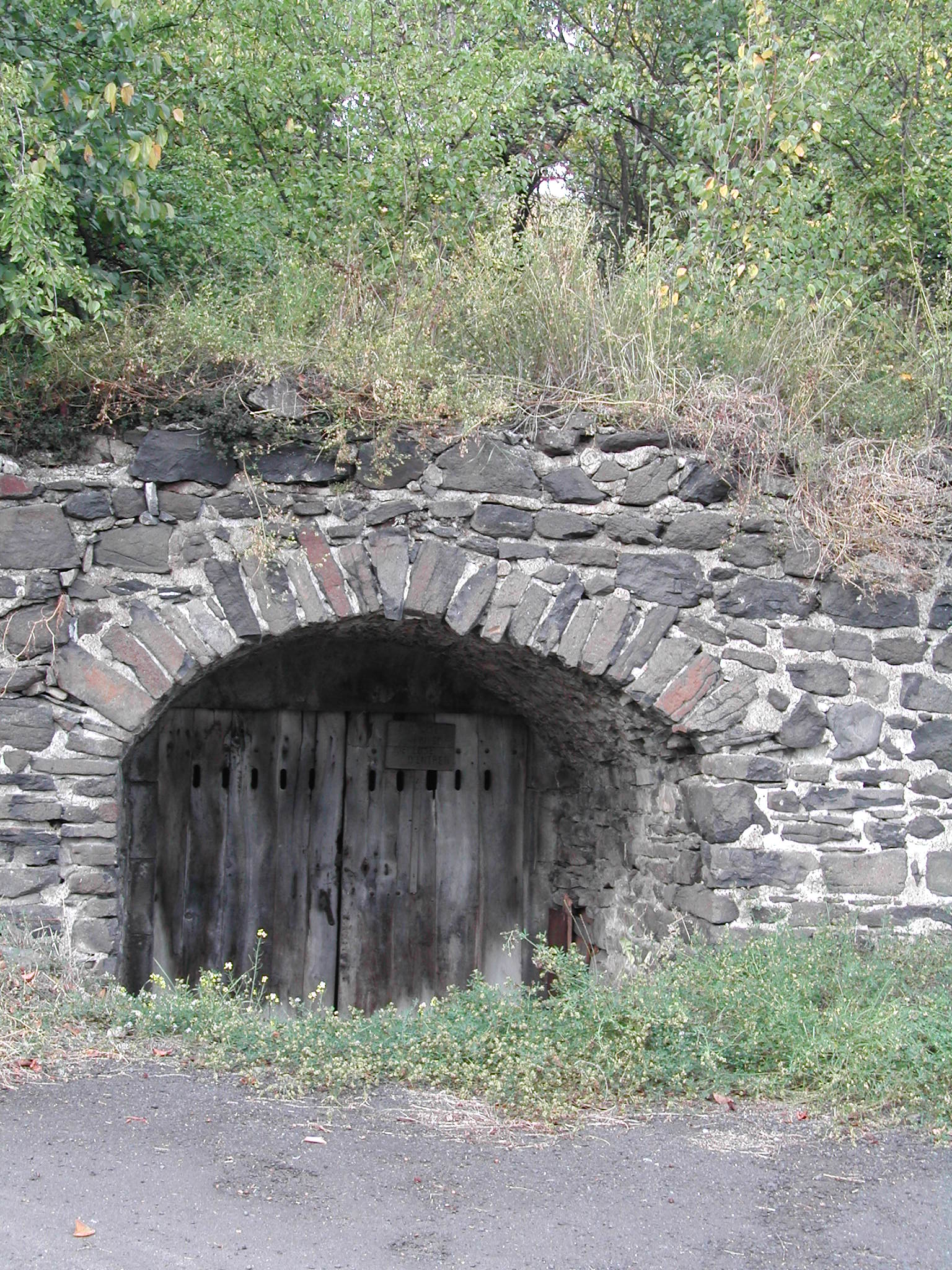 Cave à vin in "Rue des caves" - Chateaugay (France)